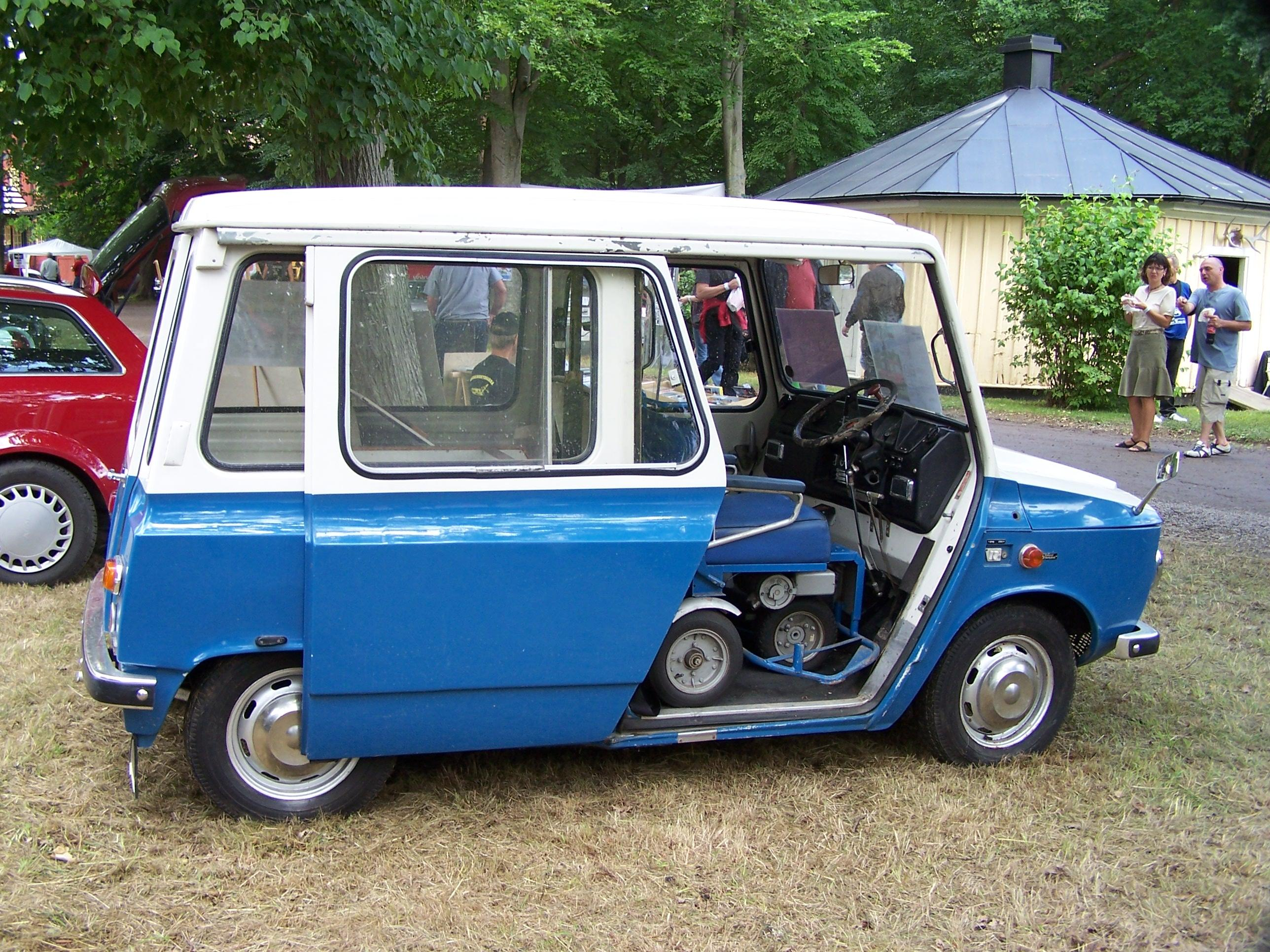 Kalmar Verkstads AB (KVAB) Tjorven, equipped for handicapped people. Picture taken at Calmar Classic Motor Show 2008.